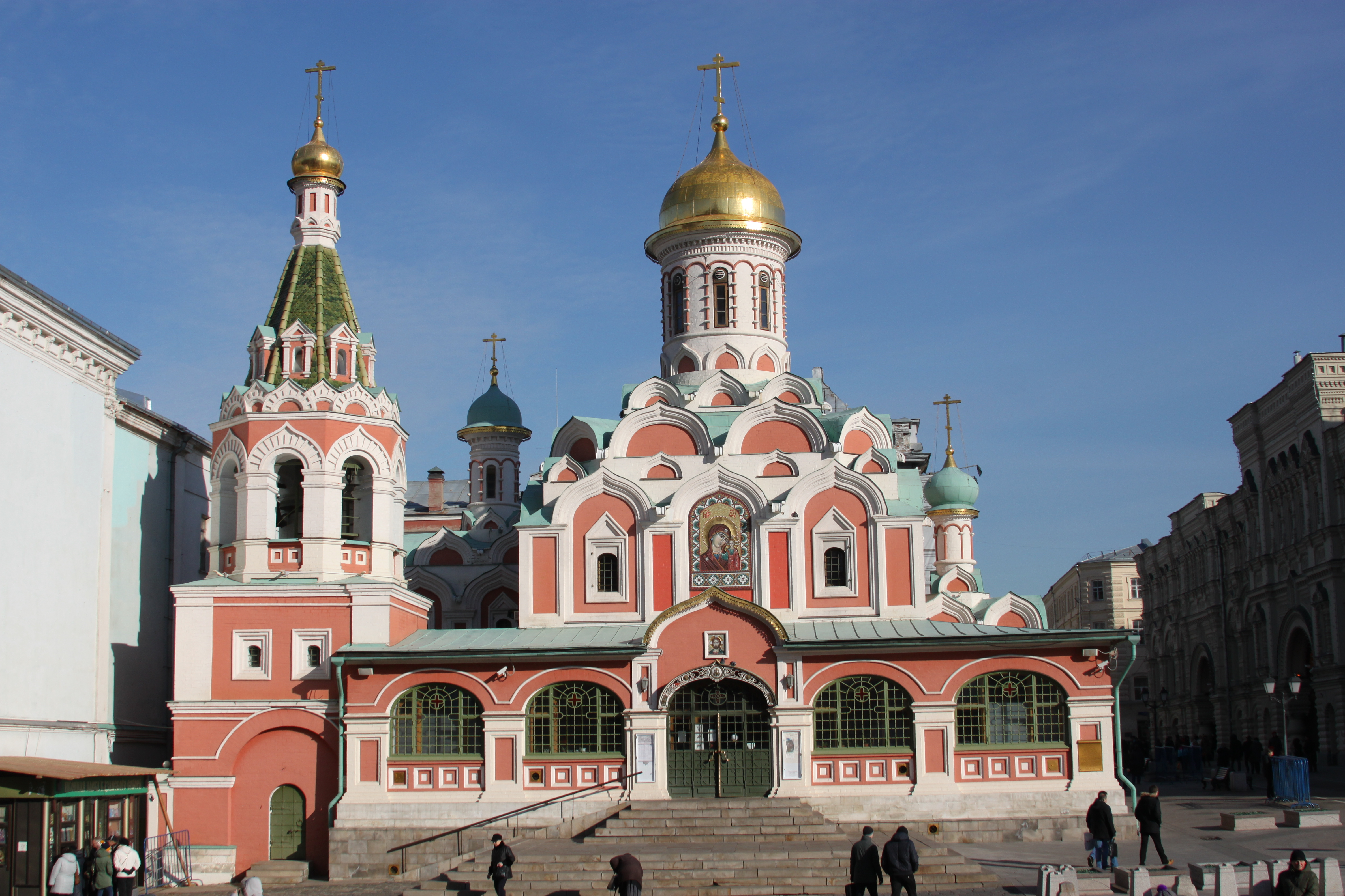 Kazan Cathedral in Red Square